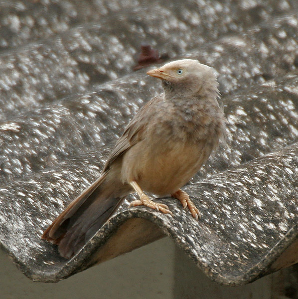 Yellow-billed Babbler Turdoides affinis in Hyderabad , India.